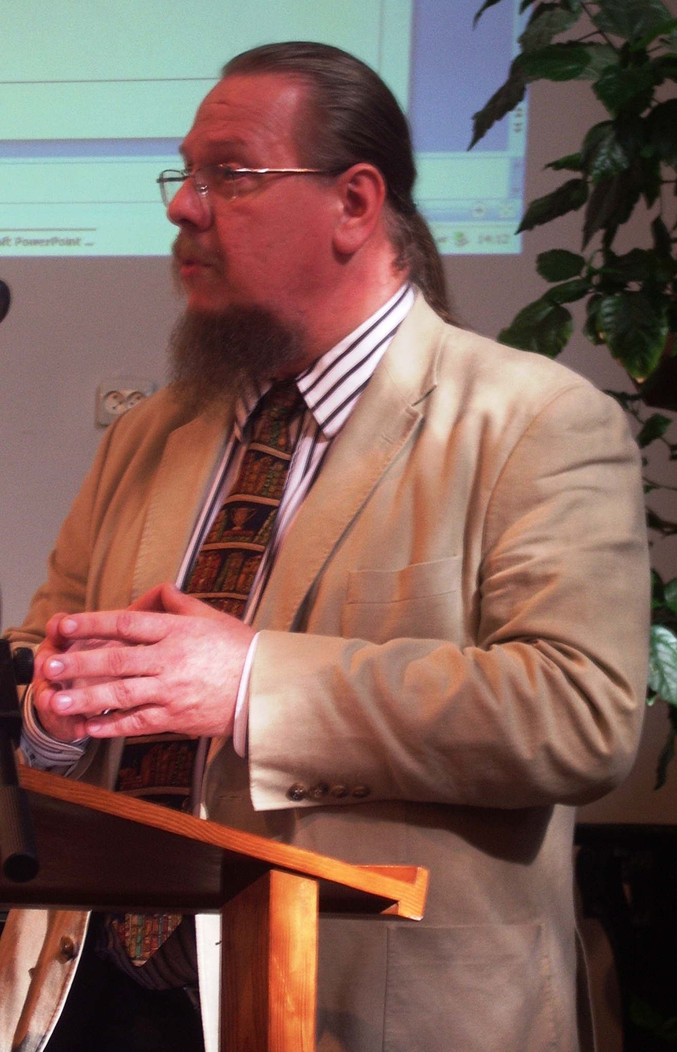 Jaan Bärenson (born 1957) is a baptist from Estonia.